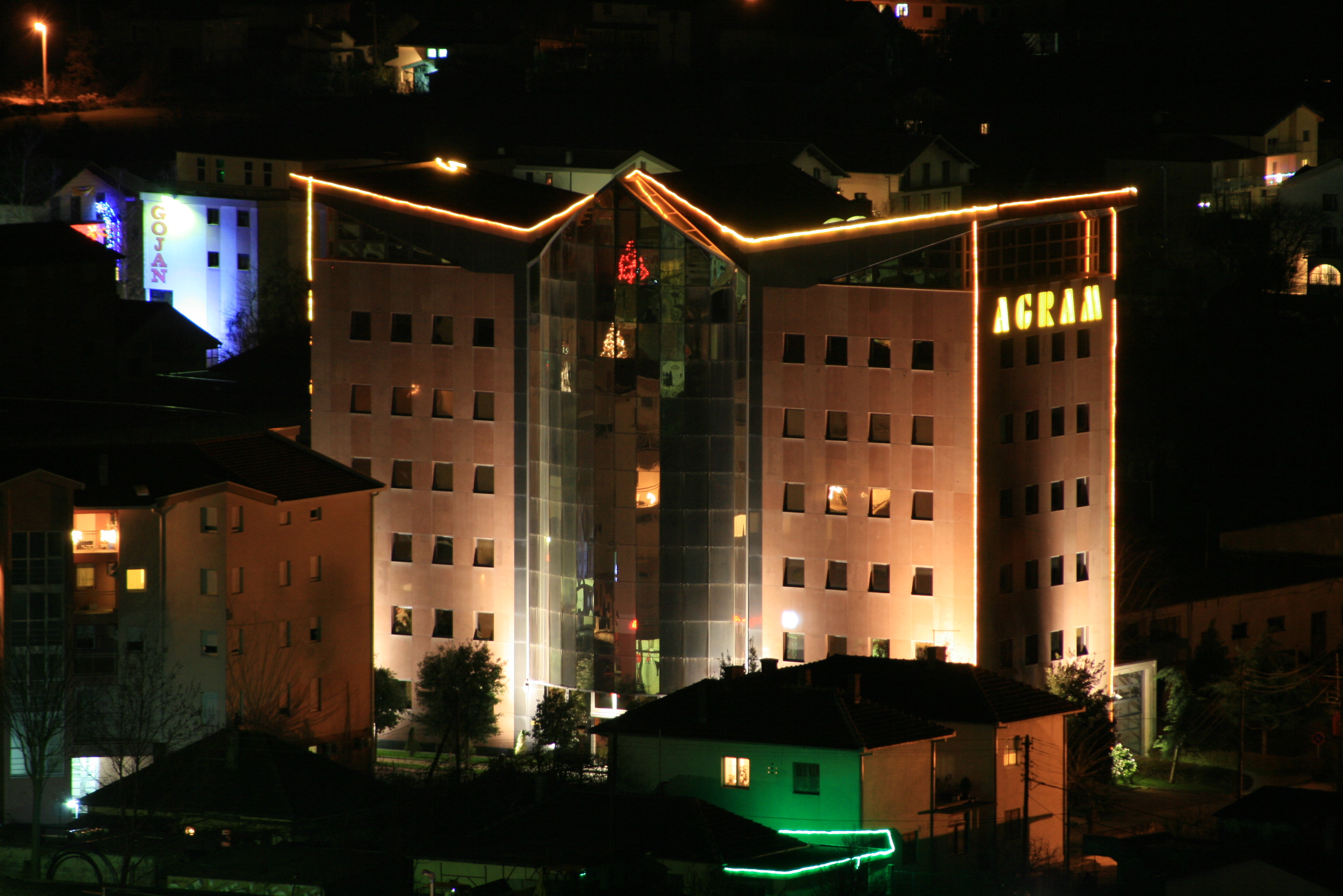 AGRAM, Ljubuški, Bosnia and Herzegovina